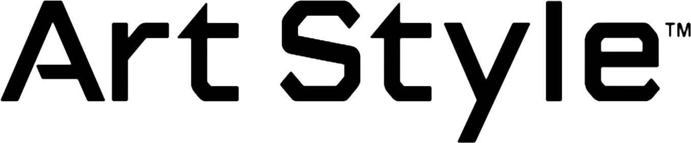 The logo for Art Style, a video game series created by Skip Ltd. for WiiWare and DSiWare.